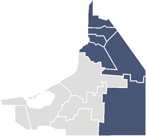 Map of the First Federal Electoral District of the State of Campeche, México.